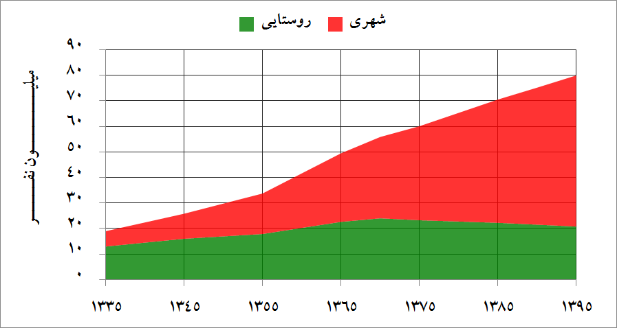 Changes in population of Iran divided into urban and rural.